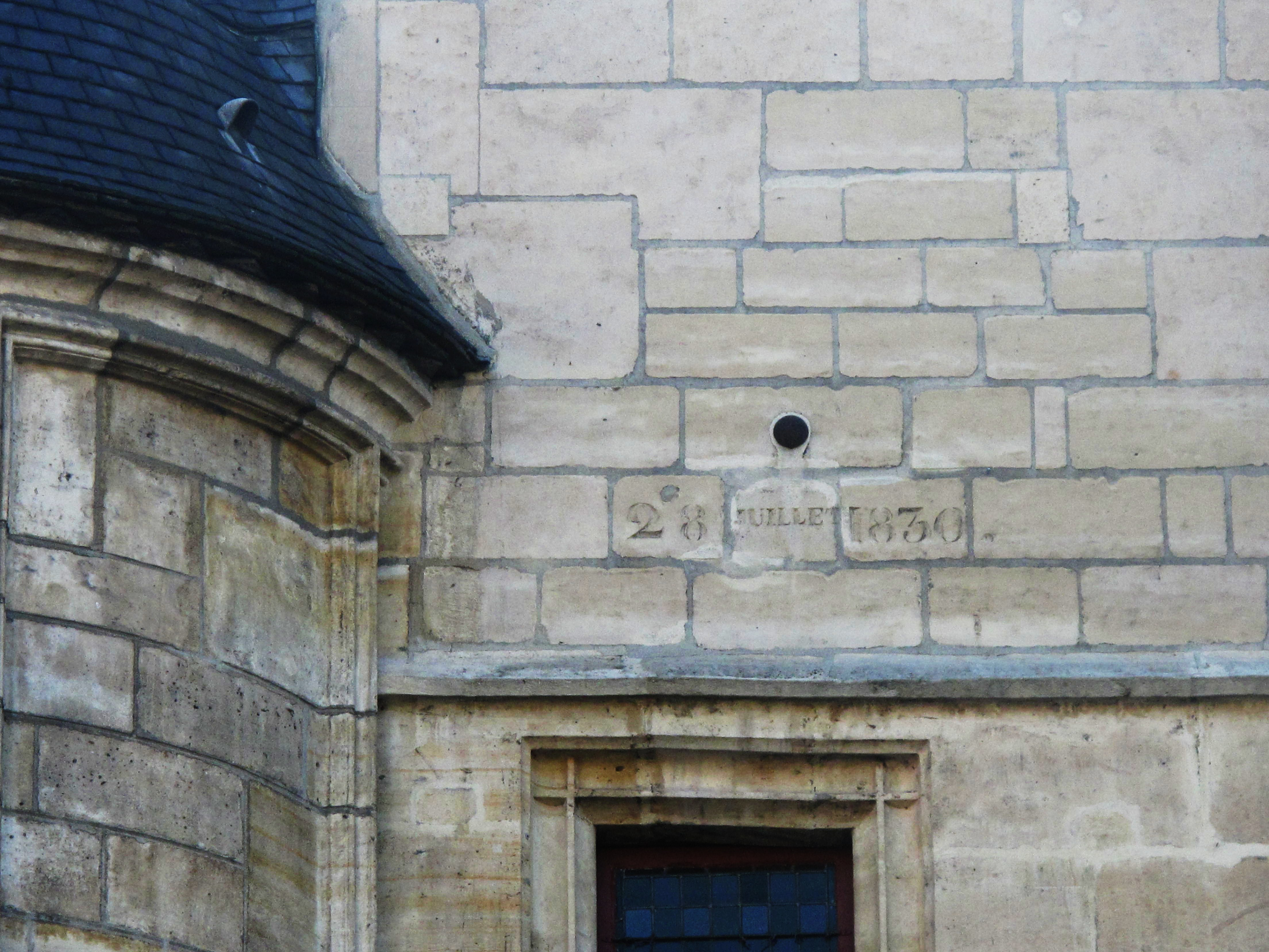 On the facade of the hôtel de Sens, mark of a cannon-ball fired during the revolution of 1830. Paris 20th arr. The date "July 28 1830" is encarved beneath.